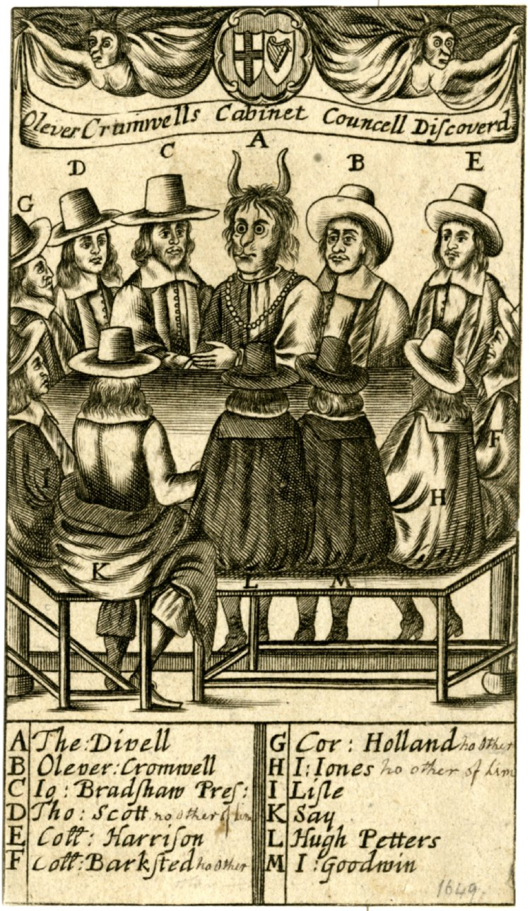 Satirical book illustration apparently dating from the 1660s, used in 1713 as the frontispiece to "A Vindication of the Royal Martyr, King Charles I .... By the celebrated Mr Butler, Author of Hudibras" which was included in "The Secret History of the Calf's Head Club" (1713; see 1868,0626.651.4) as a satire on the Low Church opponents of Dr Sacheverell. The devil and and eleven men are seated around a table; over their heads two devils draw back curtains held up by shields bearing the cross of St George and an Irish harp. Each figure is identified by letters A-M corresponding to a key beneath, all are regicides except for the last two, these being chaplains who supported the execution of Charles I: the Devil, Oliver Cromwell, John Bradshaw (described as "Pres" with reference to his position as lord president of the high court of justice during the trial of Charles I), Thomas Scott, Colonel Thomas Harrison, Colonel John Barkstead, Cornelius Holland, John Jones, John Lisle, William Say, Hugh Peters, John Goodwin. Etching